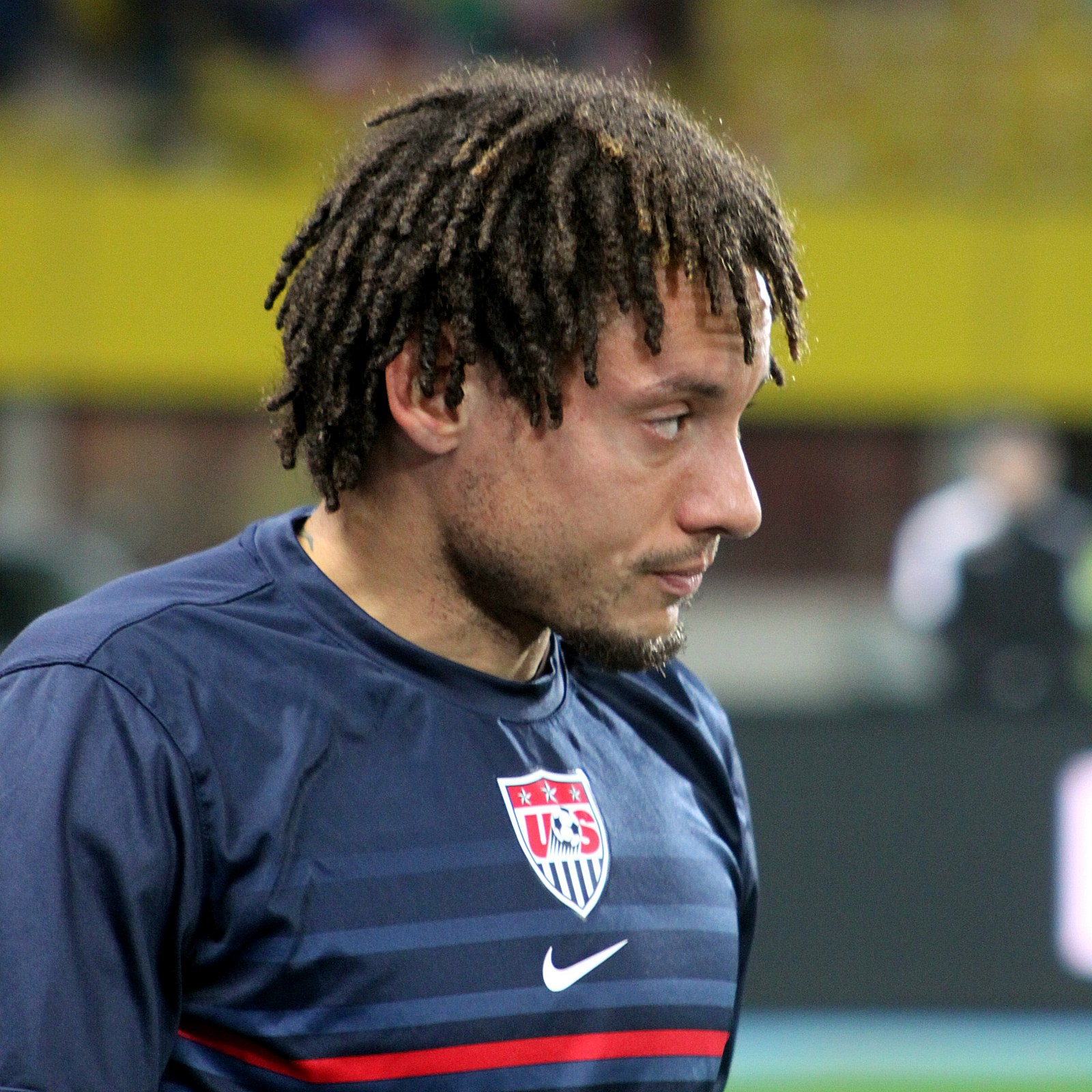 Friendly-match Austria vs. USA (1:0) in the Ernst-Happel-Stadion in Vienna at 2013-03-22. – The photo shows Jermaine Jones (USA).